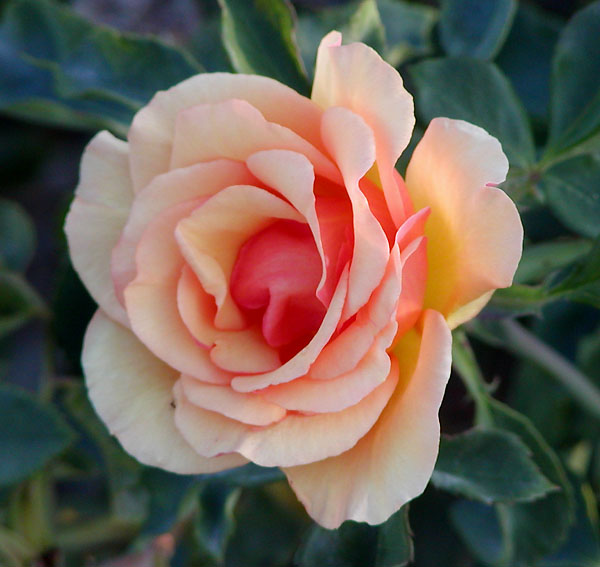 Photo of Rosa 'Anne Harkness' at the San Jose Heritage Rose Garden